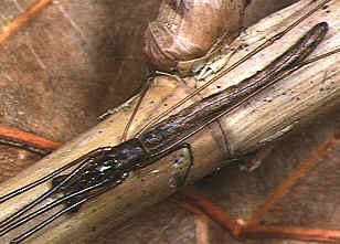 female Tetragnatha chauliodus from Okinawa.